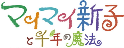 Japanese title text of Mai Mai Miracle.